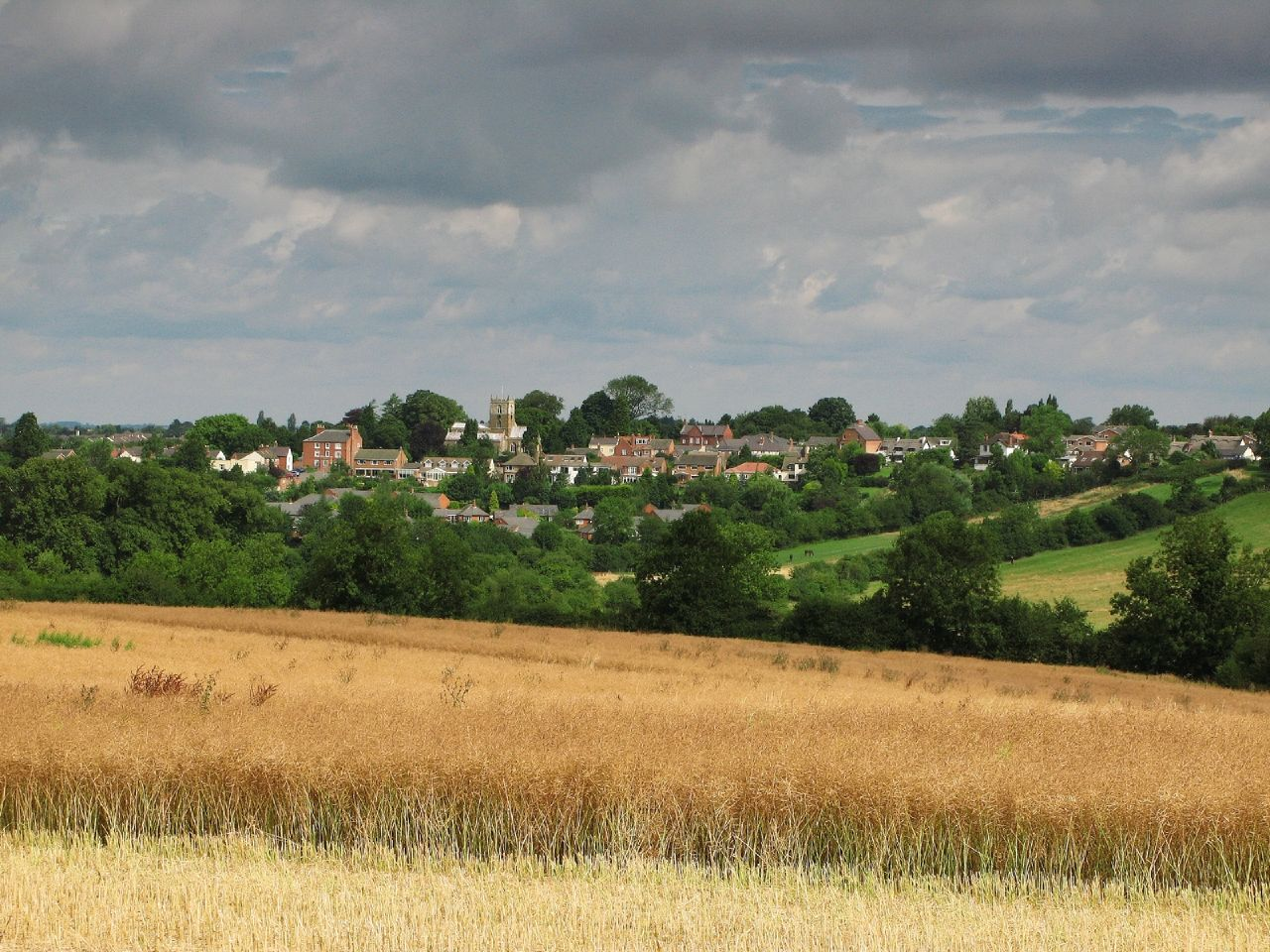 View of Thurnby, Leicestershire from near the the bridleway that runs from the Thurnby to Stoughton road, to the road near Houghton Lodge Farm